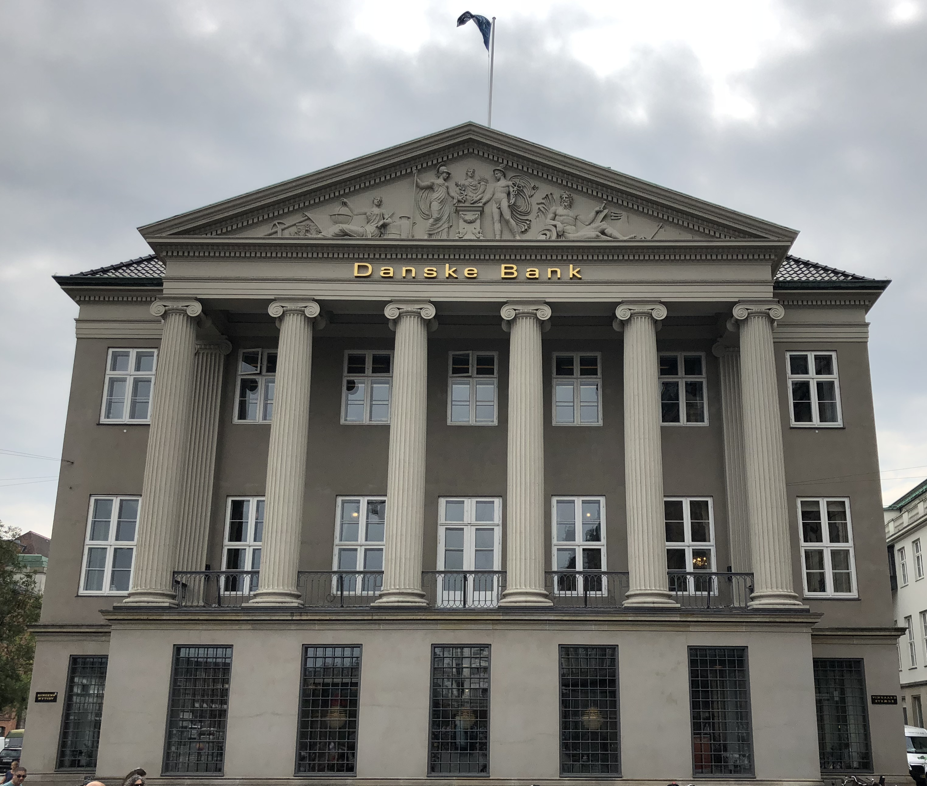 Headquarters of Danske Bank, located in the Erichsens Palace building in Copenhagen, Denmark.